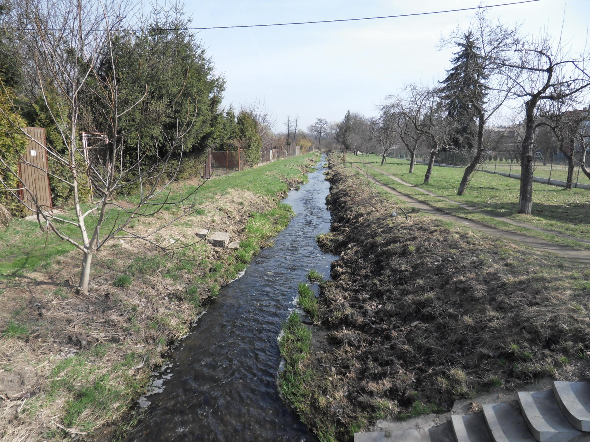 Vejprnický potok (stream), 200 meter before of confluence with Mže (river).